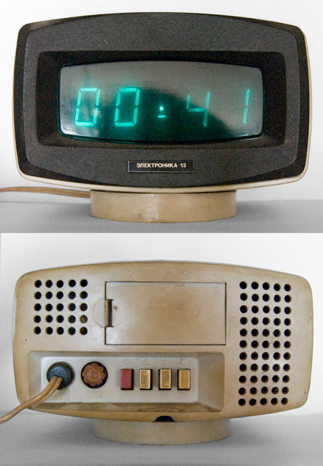 «Elektronika 13» soviet digital clock. Made in 1987. Front & backside view.